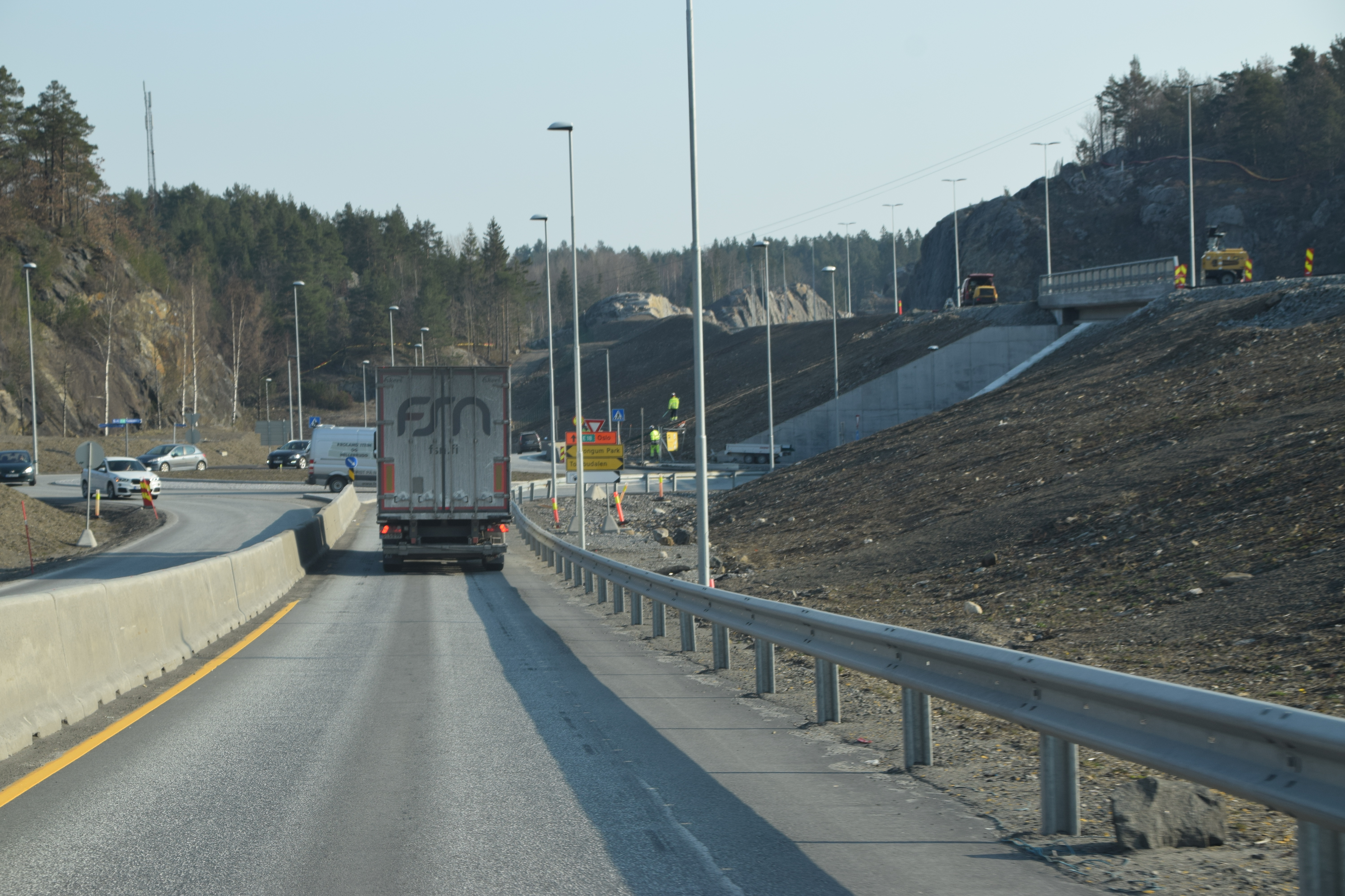 Part of the new E18 at Stølen in Arendal